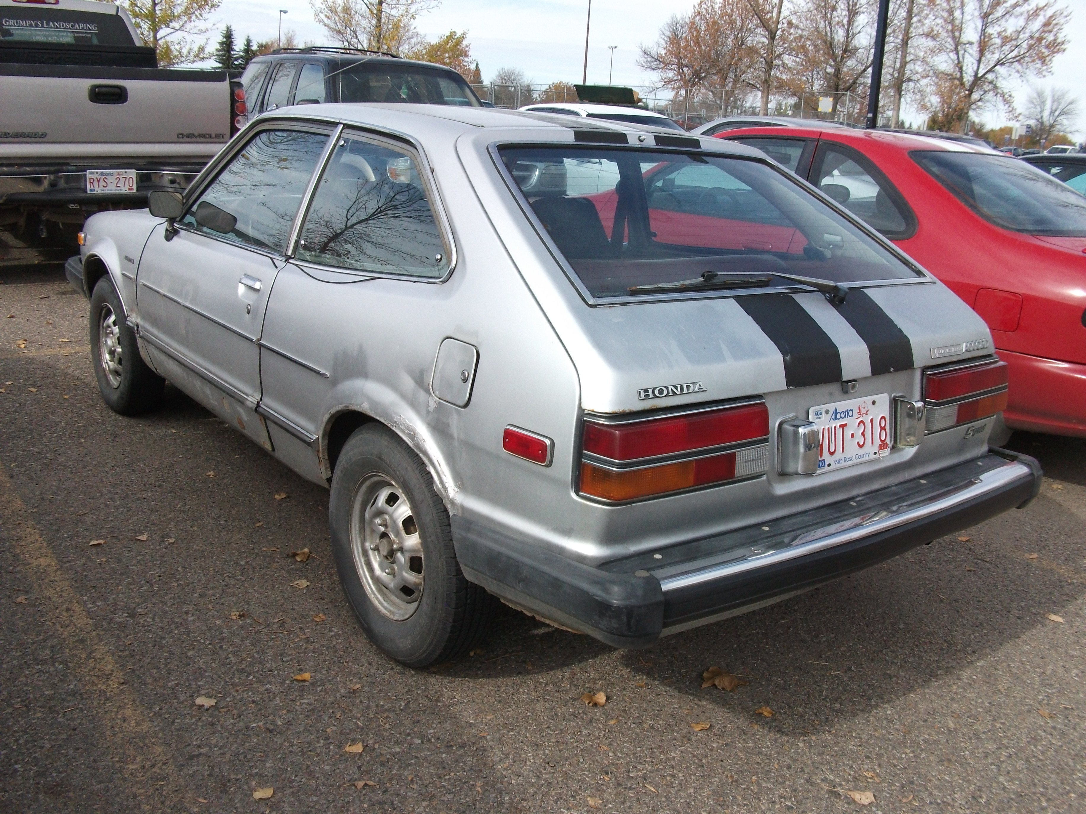 Early Honda Accord with racing stripes.